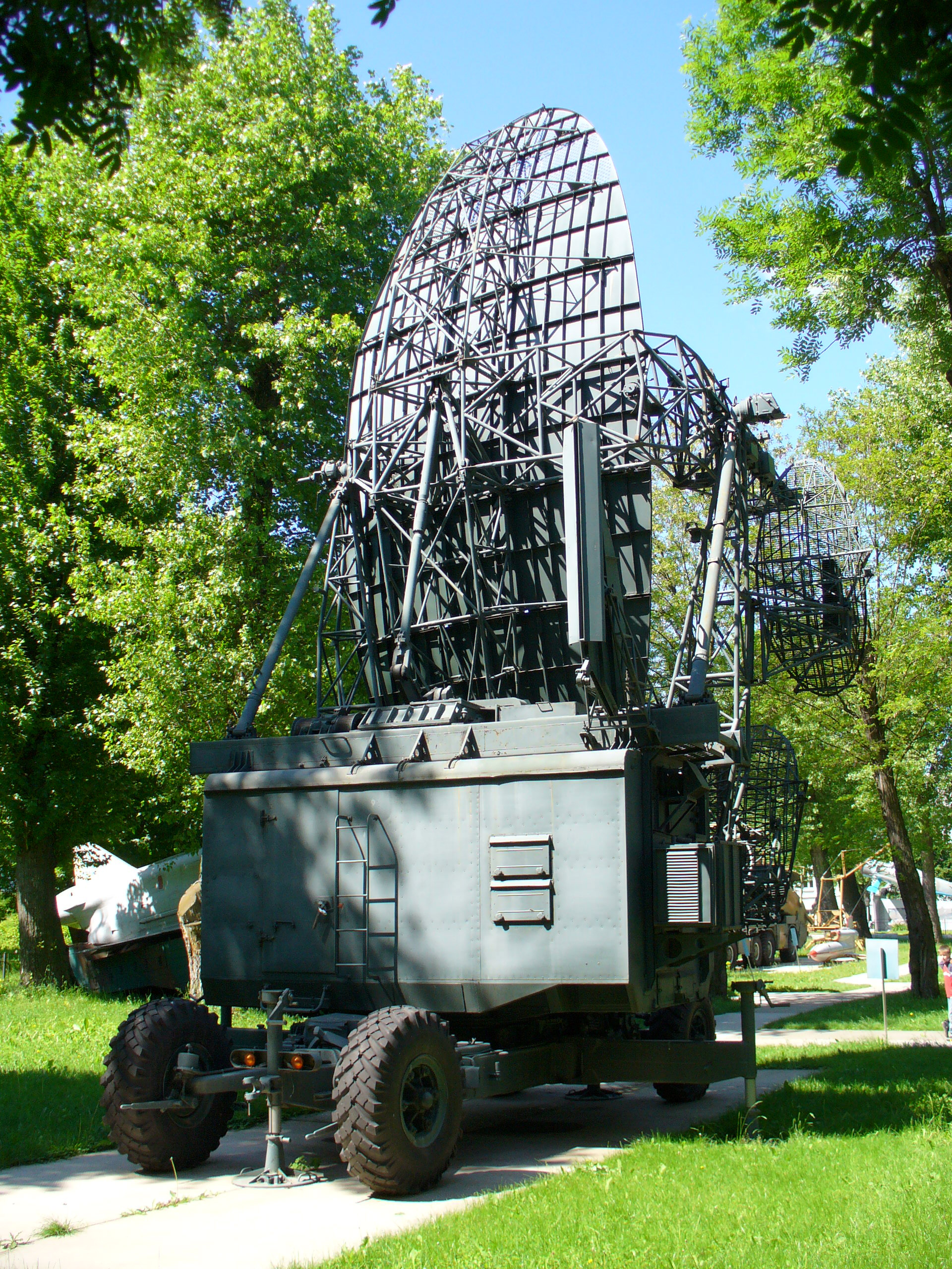 A Soviet Mobile Radar Height Finder PRV-17 (GRAU index 1RL141); ITU-classificatio: Radiolocation land station in the radiolocation service.